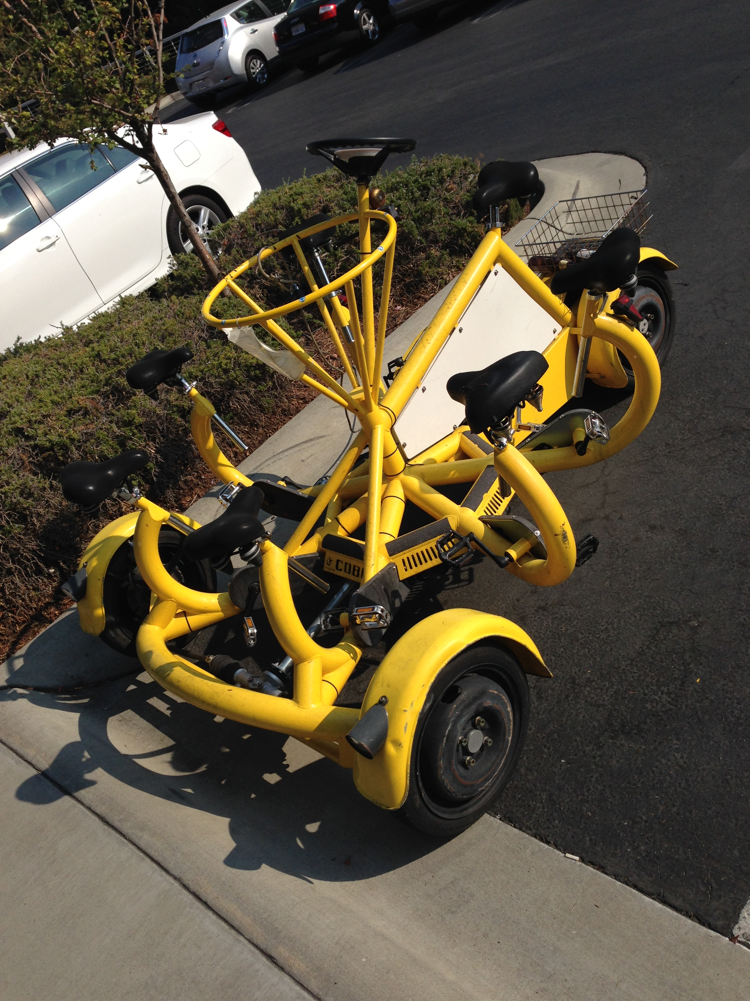 Googleplex, Mountain View, California